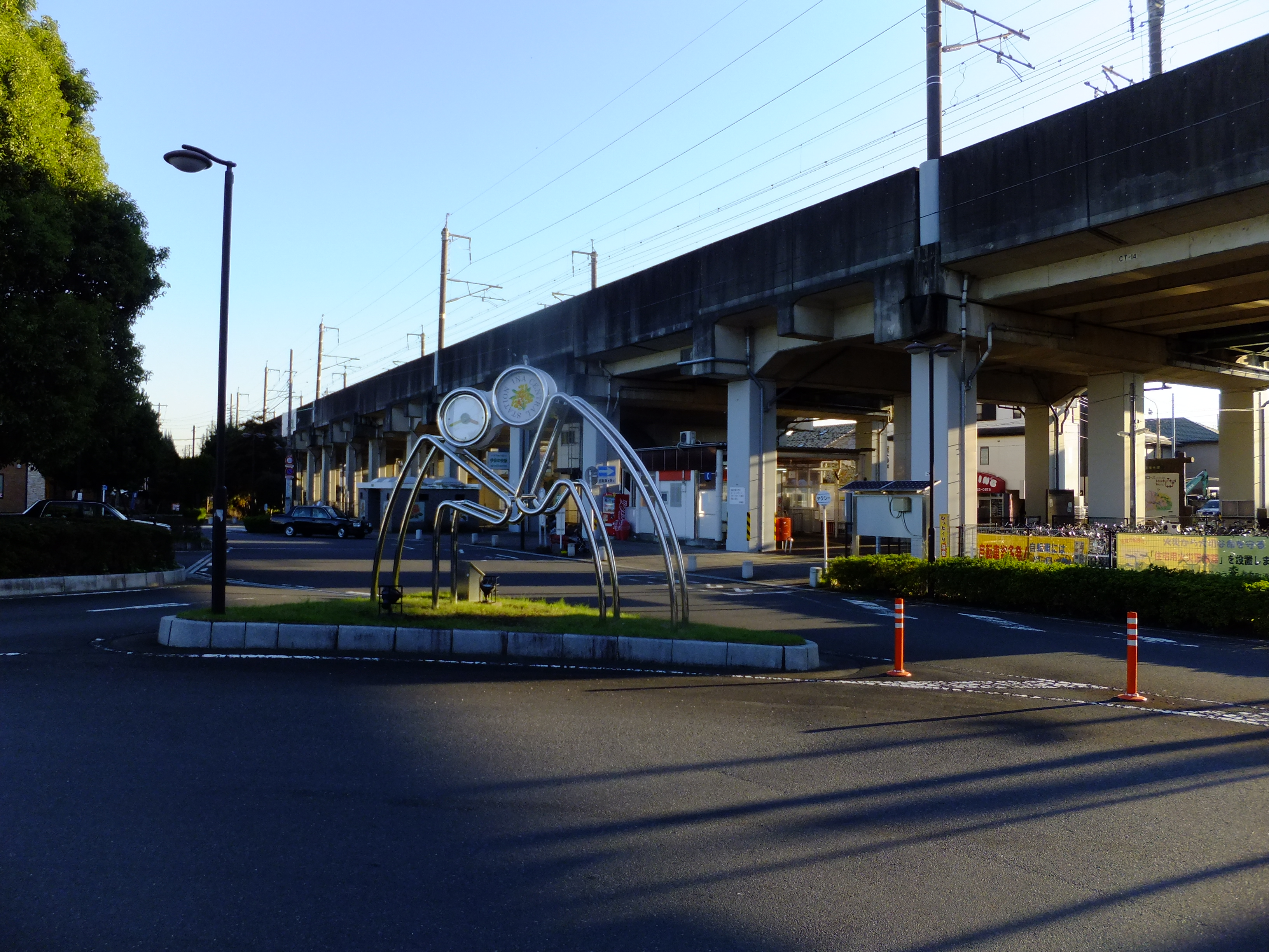 Ina-Chūō Station on the New Shuttle Line, in Ina, Saitama, Japan